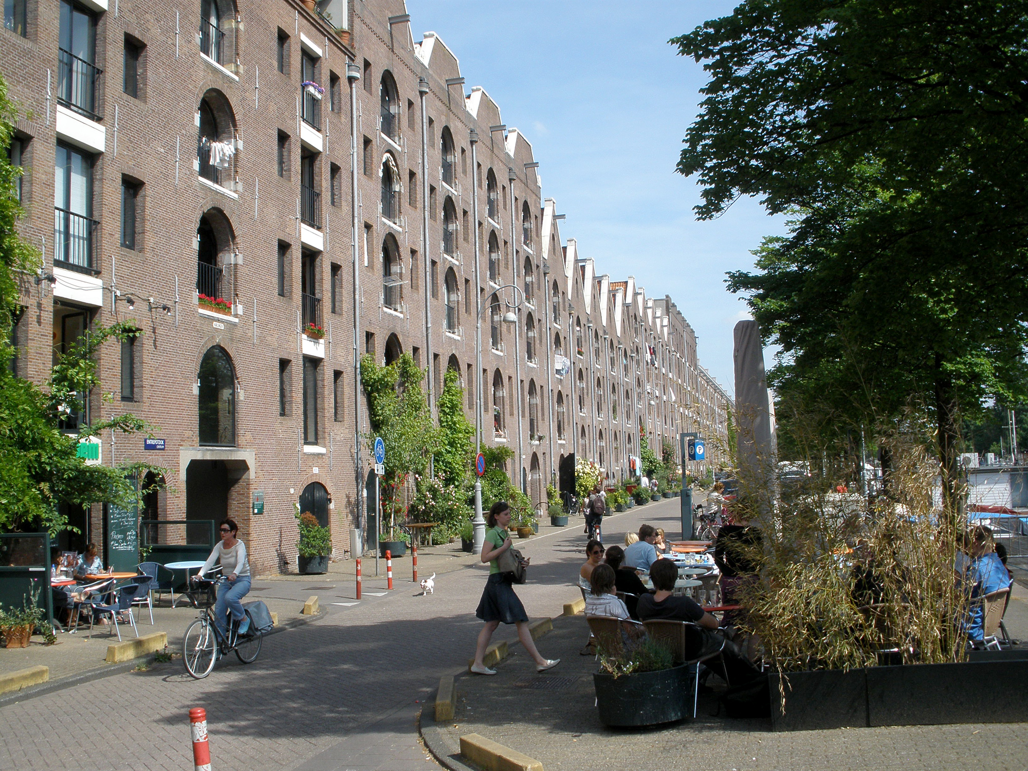 The Entrepotdok in Amsterdam. This row of canalside warehouses now has national monument status.